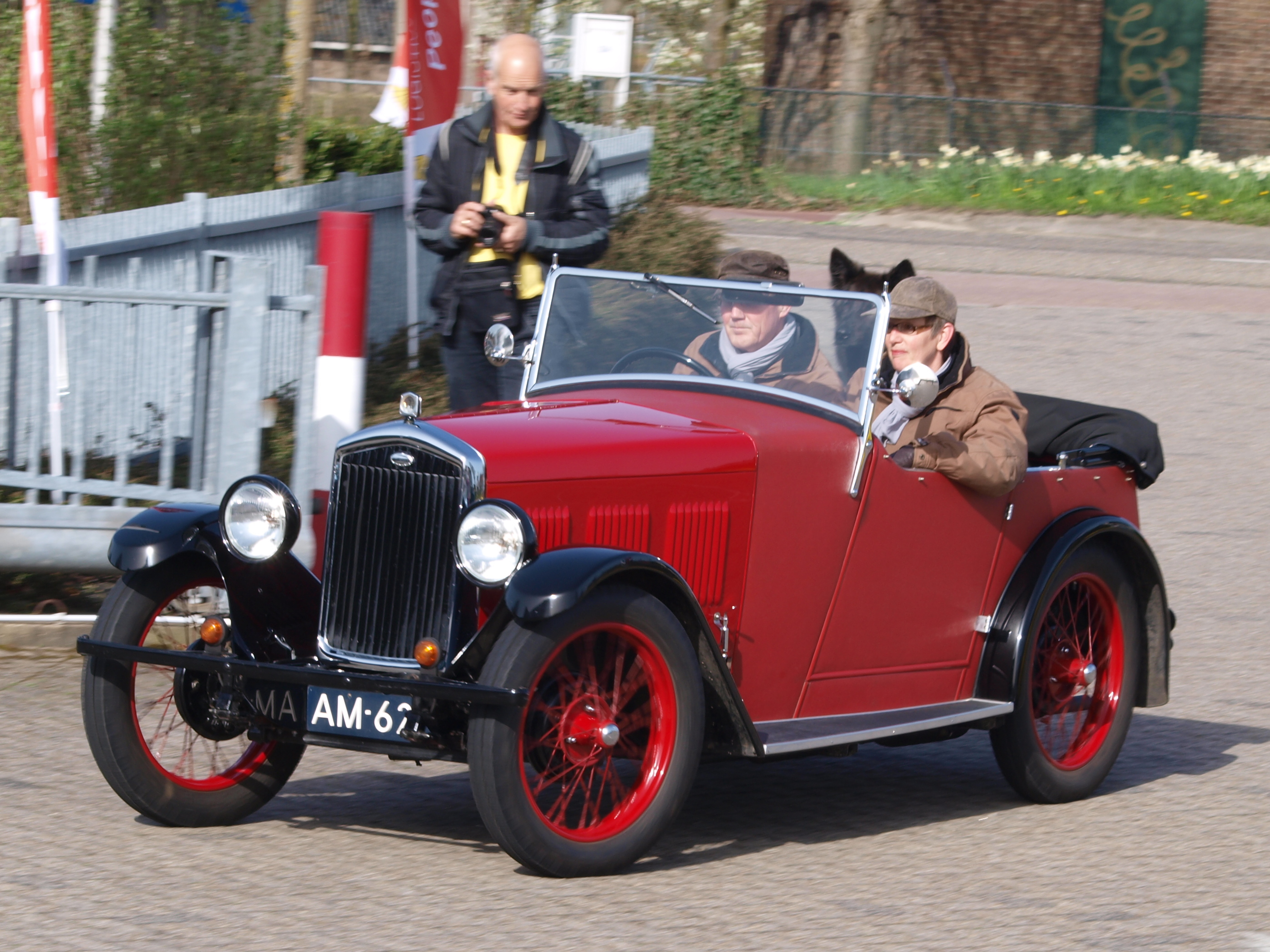 Red Wolseley Hornet, Dutch registration AM-62-91 Wolseley Hornet cabriolet 6-cylinders 1271 cc 25bhp 4-seater